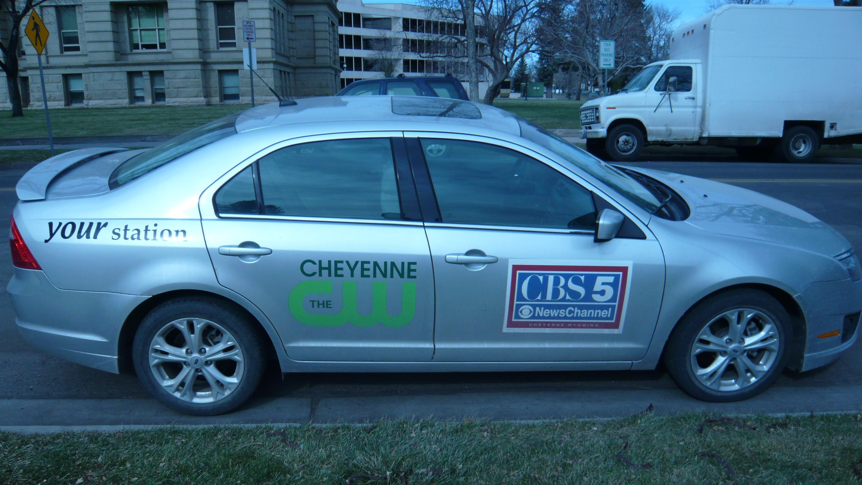 Television car for The CW and CBS in Cheyenne, Wyoming.